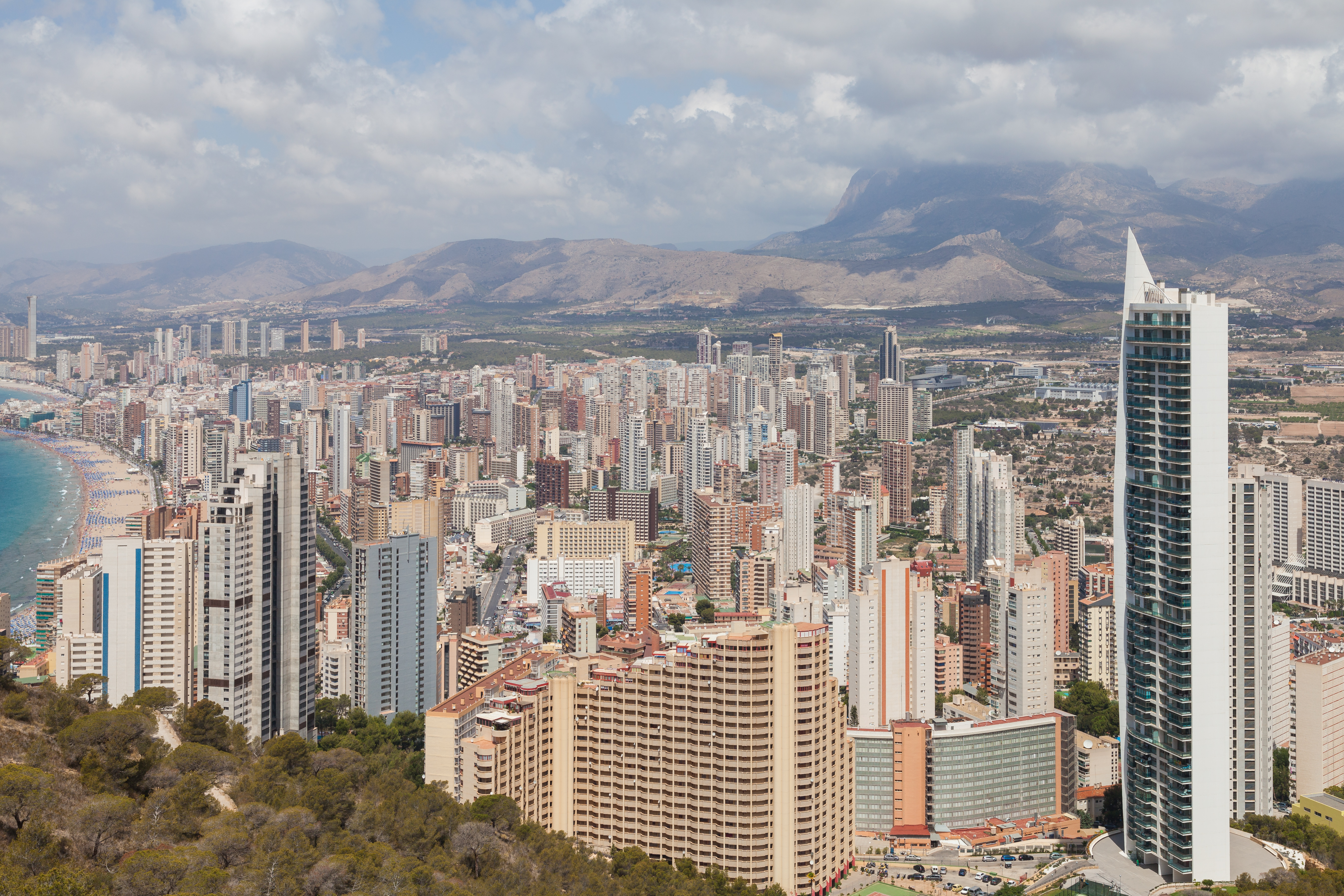 View of Benidorm, Spain